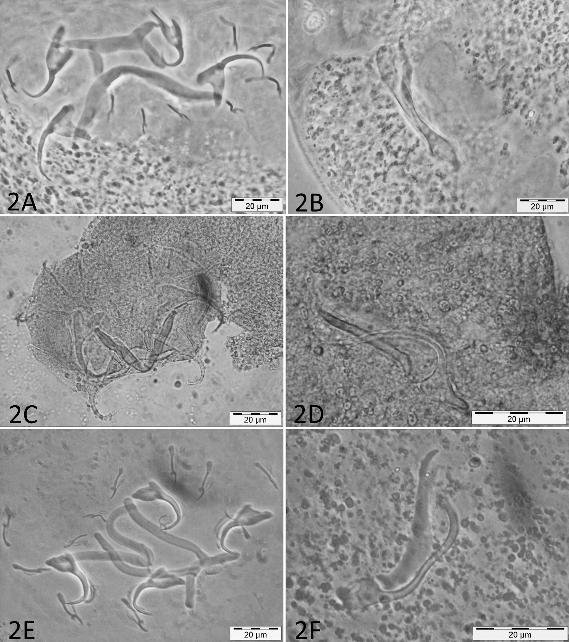 Figure 2 from paper. Micrographs of haptoral and male genital sclerotized structures from monogenean species belonging to Cichlidogyrus. Host species: (A) ‘Gnathochromis’ pfefferi (opisthaptor, Hoyer’s medium, phasecontrast); (B) ‘Gnathochromis’ pfefferi (MCO, Hoyer’s medium, phasecontrast); (C) Gnathochromis permaxillaris (opisthaptor, GAP); (D) Gnathochromis permaxillaris (MCO, GAP); (E) Limnochromis auritus (opisthaptor, Hoyer’s medium, phasecontrast); (F) Limnochromis auritus (MCO, Hoyer’s medium, phasecontrast).